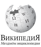 A logo for Wikipedia in the Komi-Zyrian language.